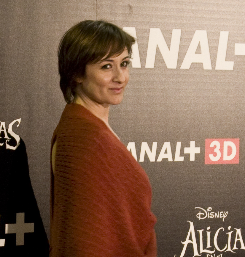 Nathalie Poza Spanish actress at the photocall of Alice in Wonderland in 2010.